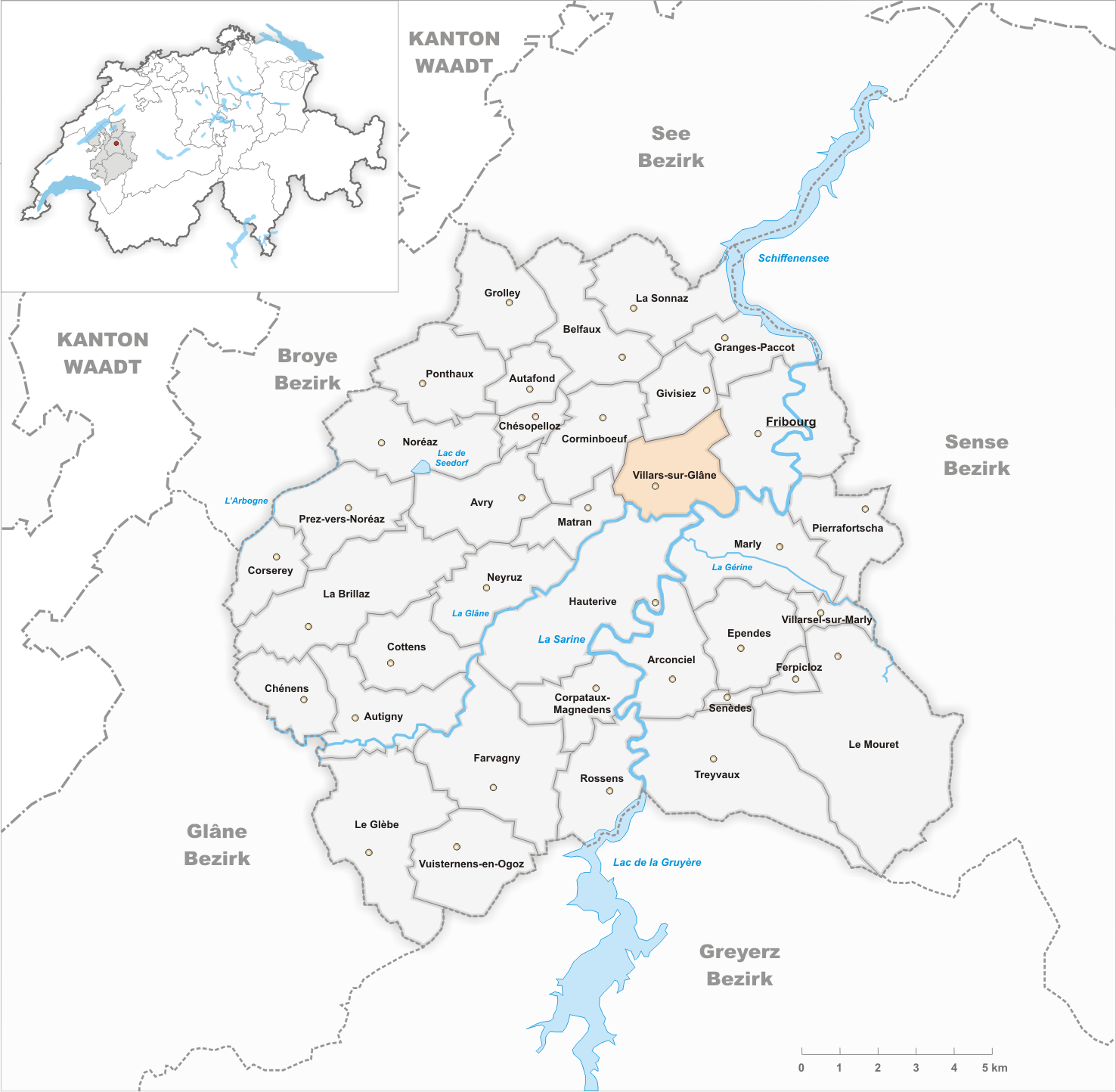 Municipality Villars-sur-Glâne